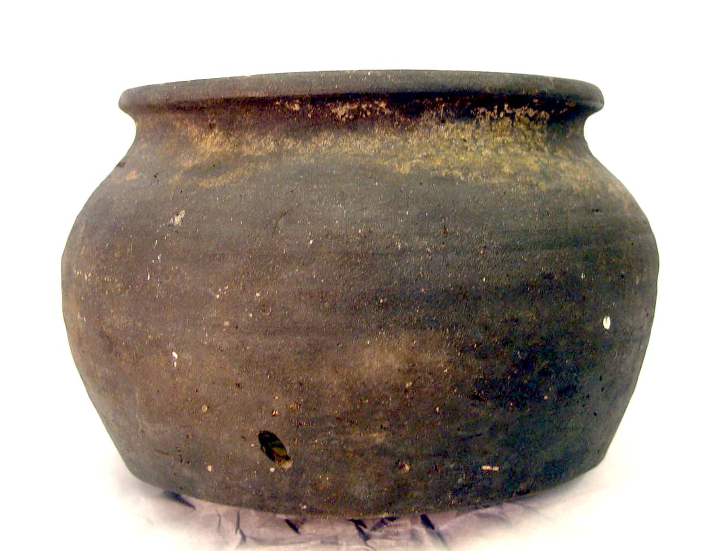 Early Medieval Sandy ware cooking pot. Grey fabric, everted rim, spherical body with convex base. 1000-1050 AD